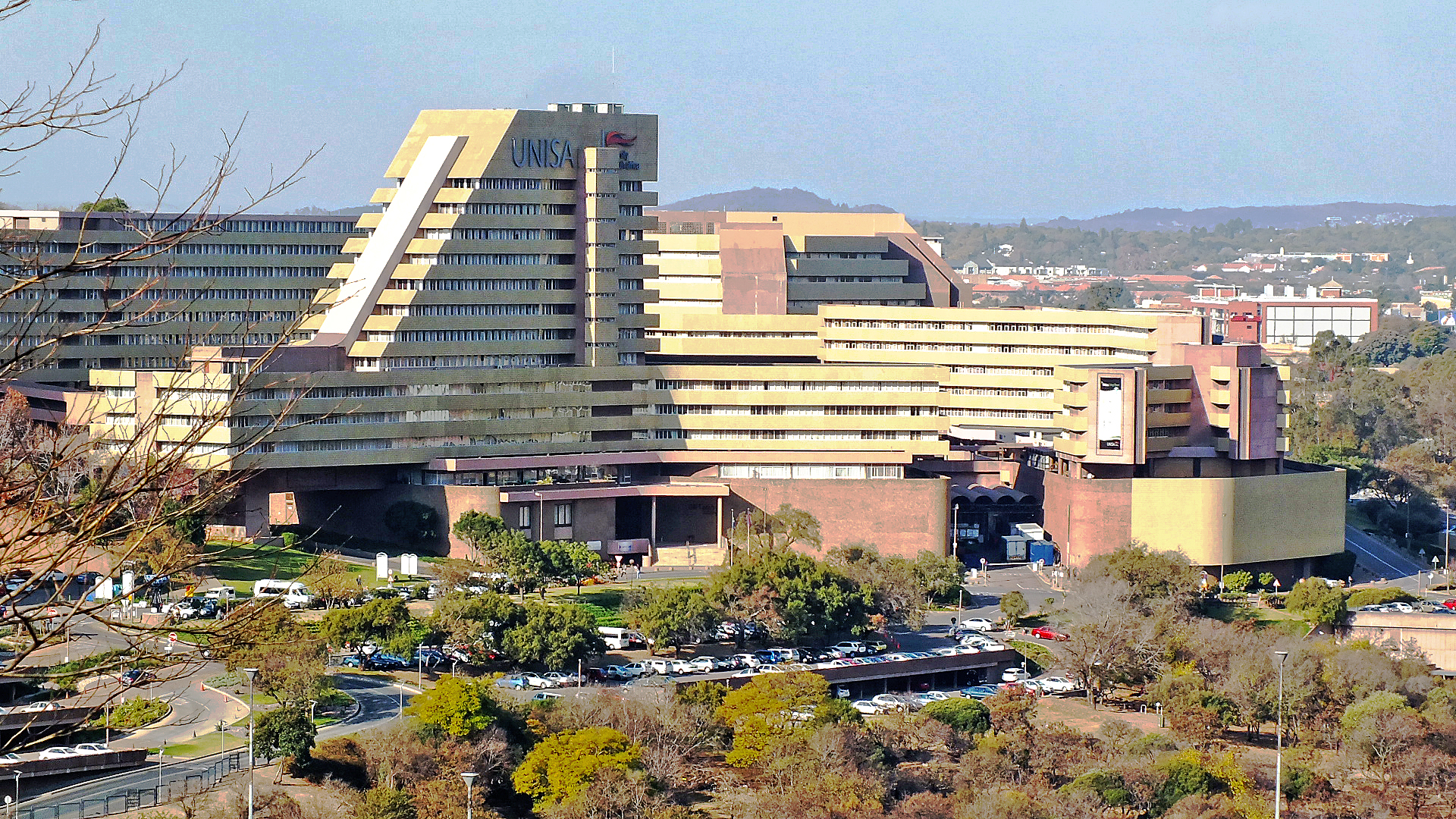 Up-close photo of the University of South Africa (UNISA), taken from the Voortrekker Monument.